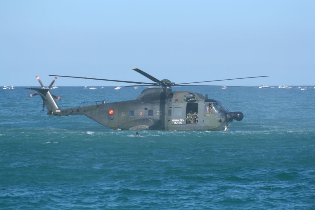 Porto Recanati, Porto Recanati Air Show 2007: a Sikorsky HH-3F Pelican of the Italian Air Force simulates a recovery operation at sea.